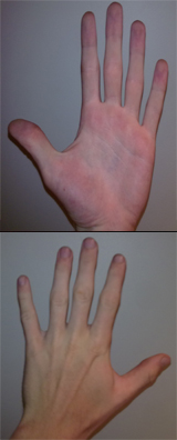 Left Hand, male